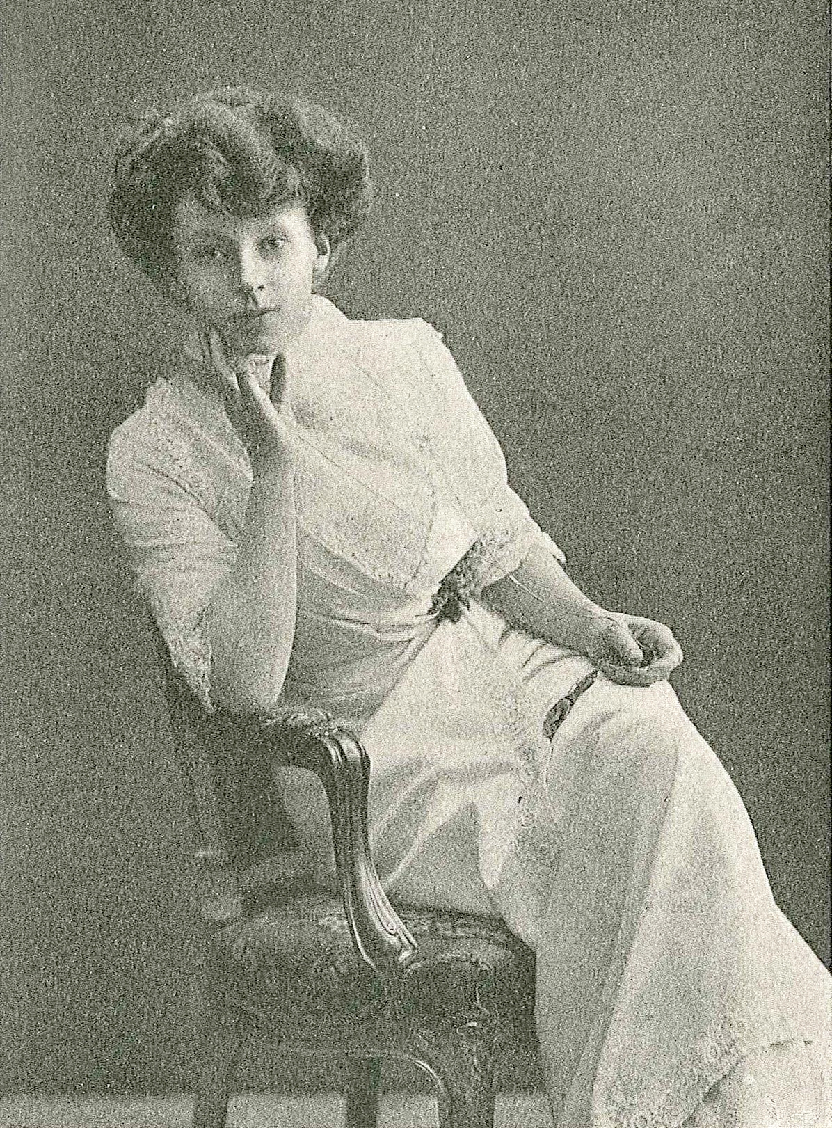 Ester Textrorius (1883-1972), Swedish actress and comedienne.